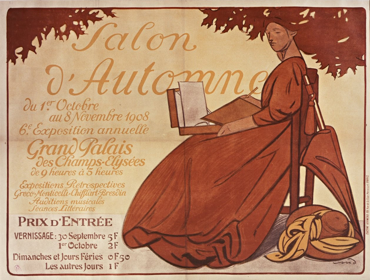 Salon d'Automne 6ème Exposition Annuelle poster (1908) - Designed by Maxime Dethomas and printed by Eugène Verneau, 108 rue de la Folie-Méricour (Paris) 120cm x 160cm